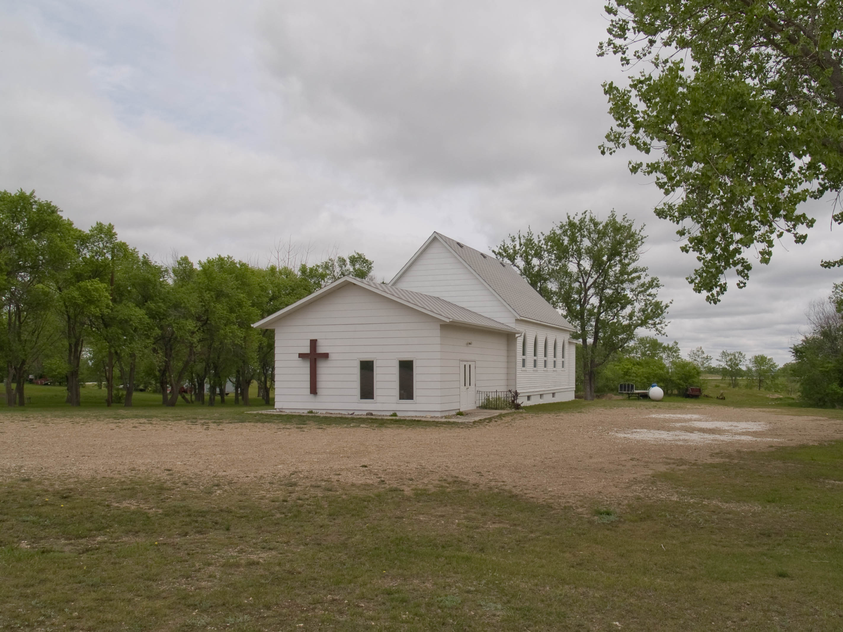 From